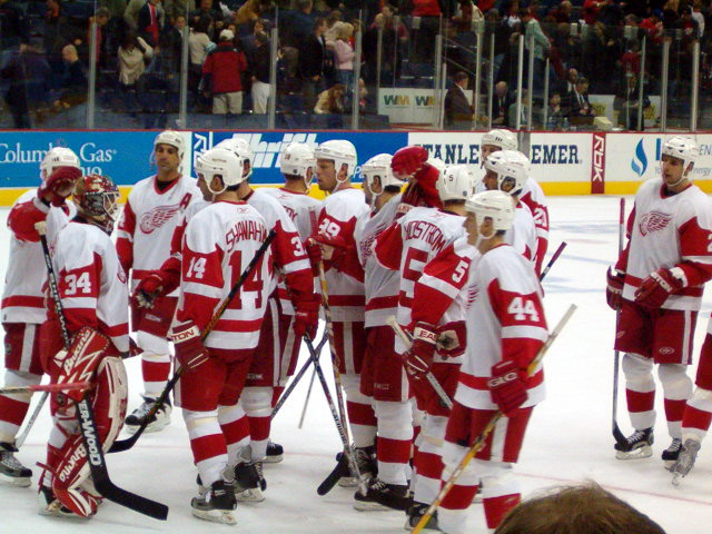 Detroit Red Wings win over Columbus Blue Jackets